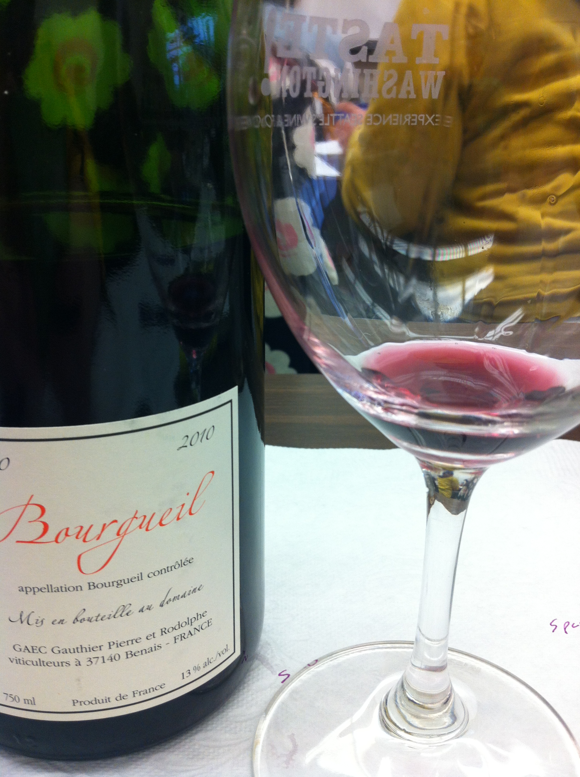 French wine from the Loire Valley wine region of Bourgueil made from Cabernet Franc